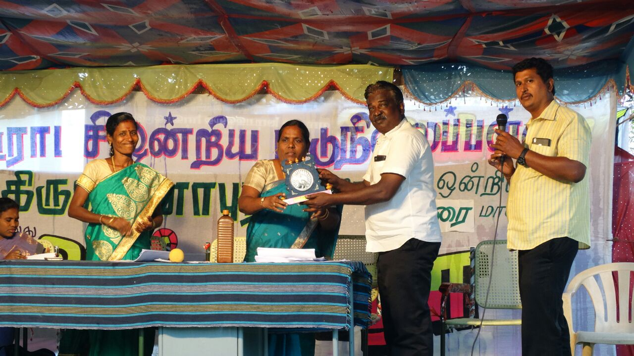 SCIENCE COMPETITION